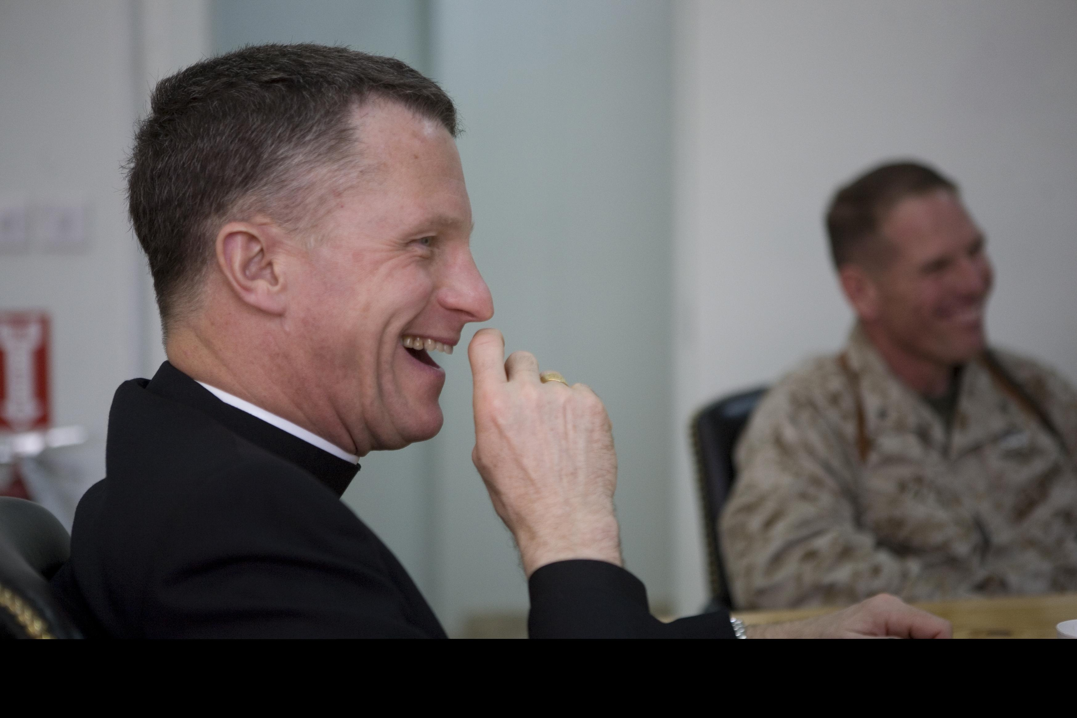 Timothy P. Broglio visits the Marines of w:2nd Marine Aircraft Wing at Al Asad Airbase.